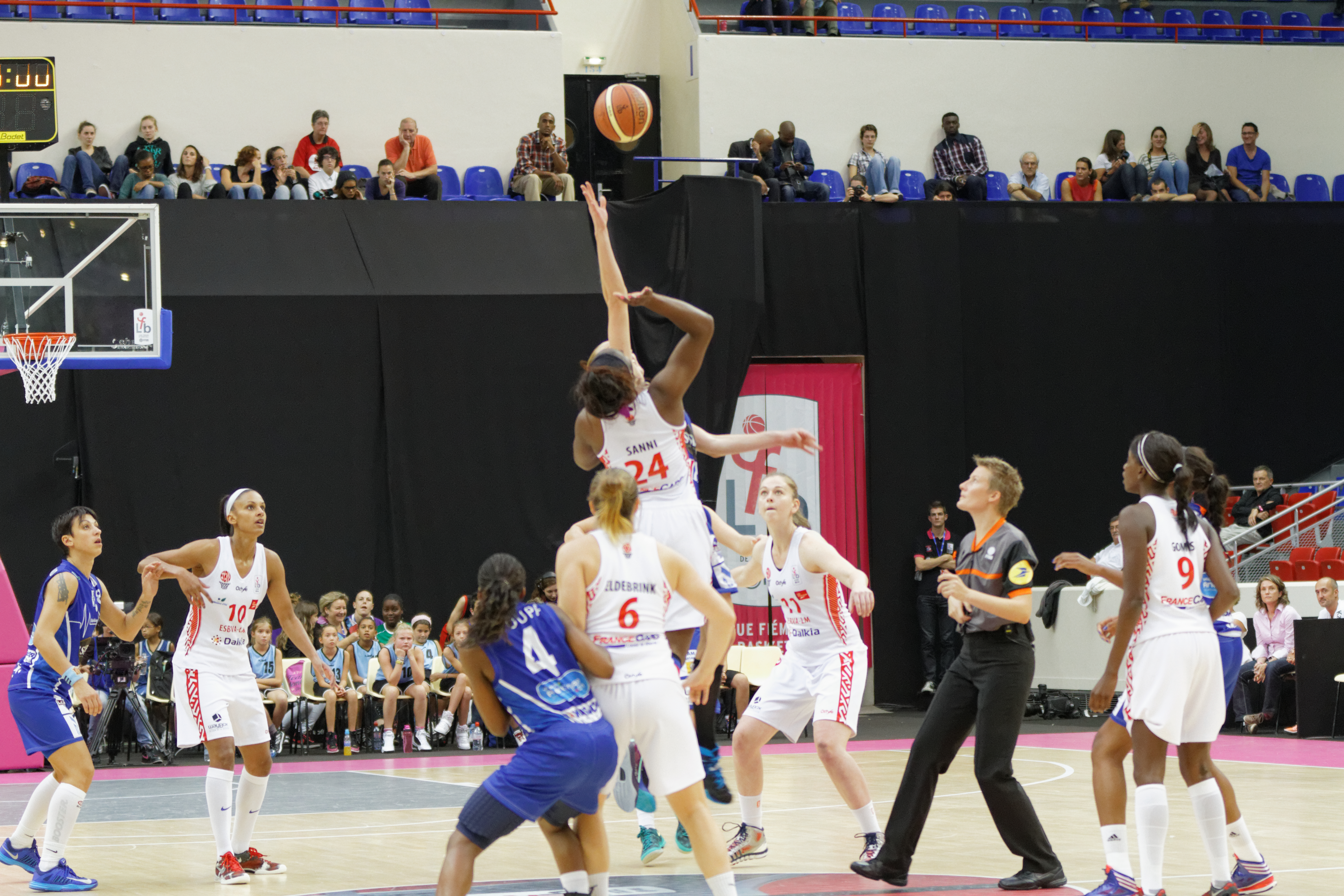 Open LFB, Villeneuve d'Ascq-Basket Landes, October 5th, 2013.